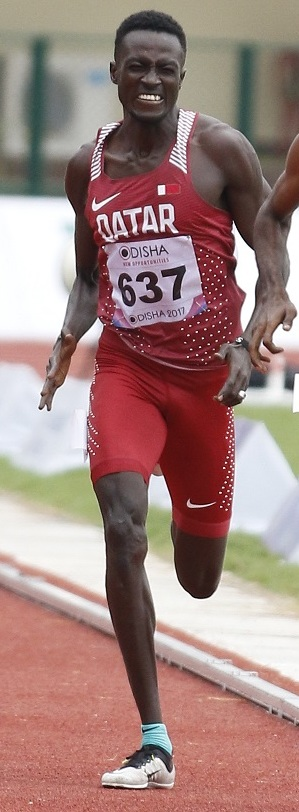 Athletes during 22nd Asian Athletics Championships in Bhubaneswar.